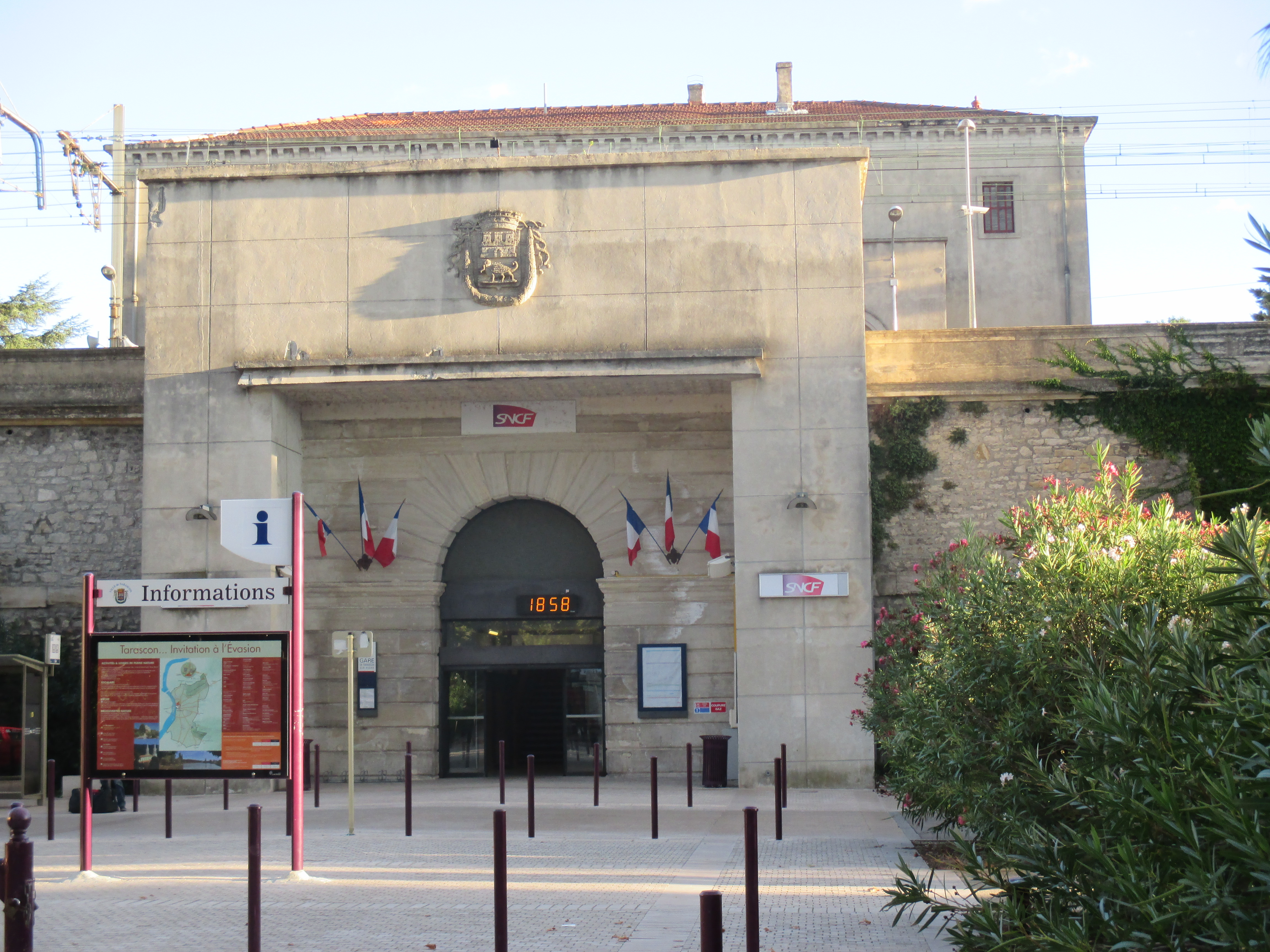 Entrance of Gare de Tarascon. Viewed from Place du Colonel Berrurier